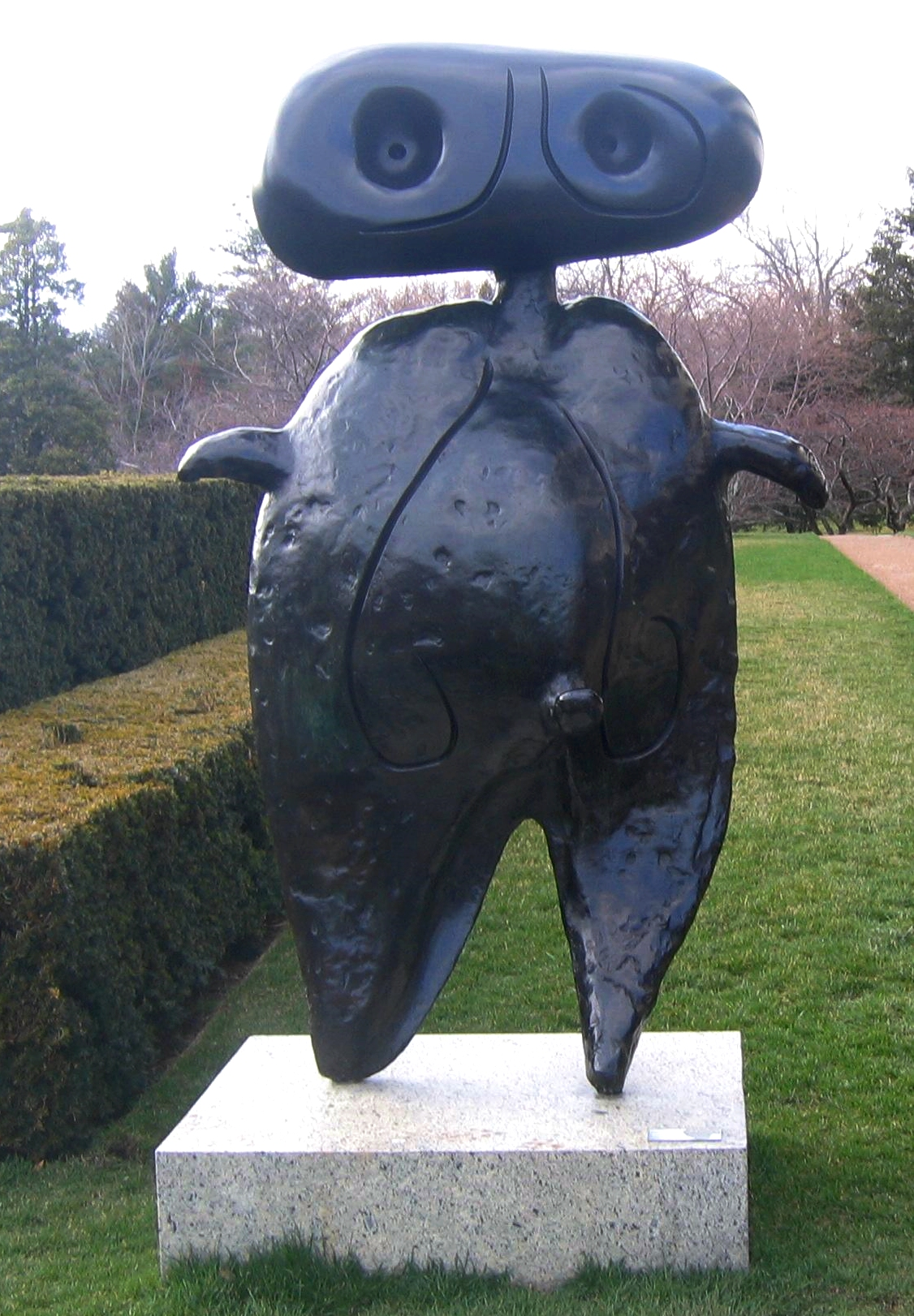 Personnage by Juan Miro, Donald m. Kendall sculpture garden near Pepsico world headquarters, Purchase, New-York, USA